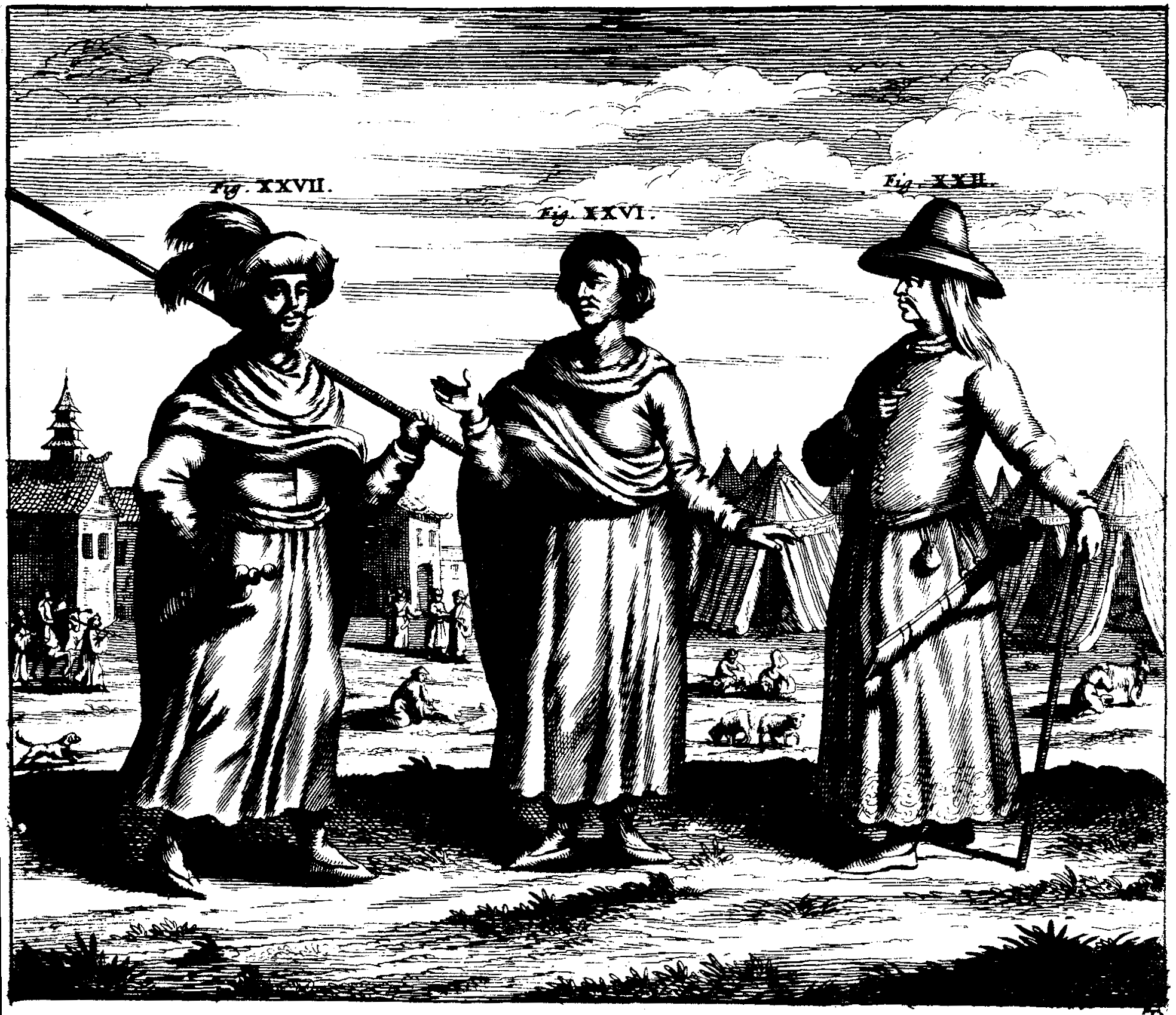 Left and Center. Dress of the Kingdom of Necbal. Right. A Northern Tartar.